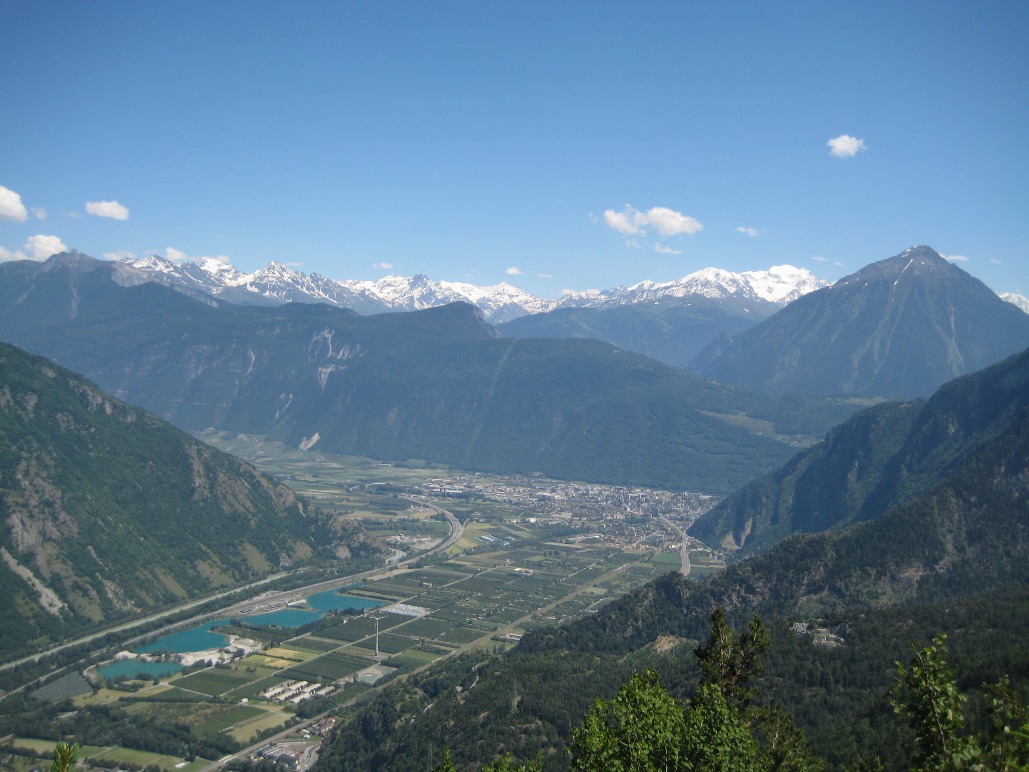 The rhone valley makes a sharp turn to the north-west in Martigny. Catogne on the right the somewhat lonesome wind turbine of Vernayaz can be seen on the right of the lakes